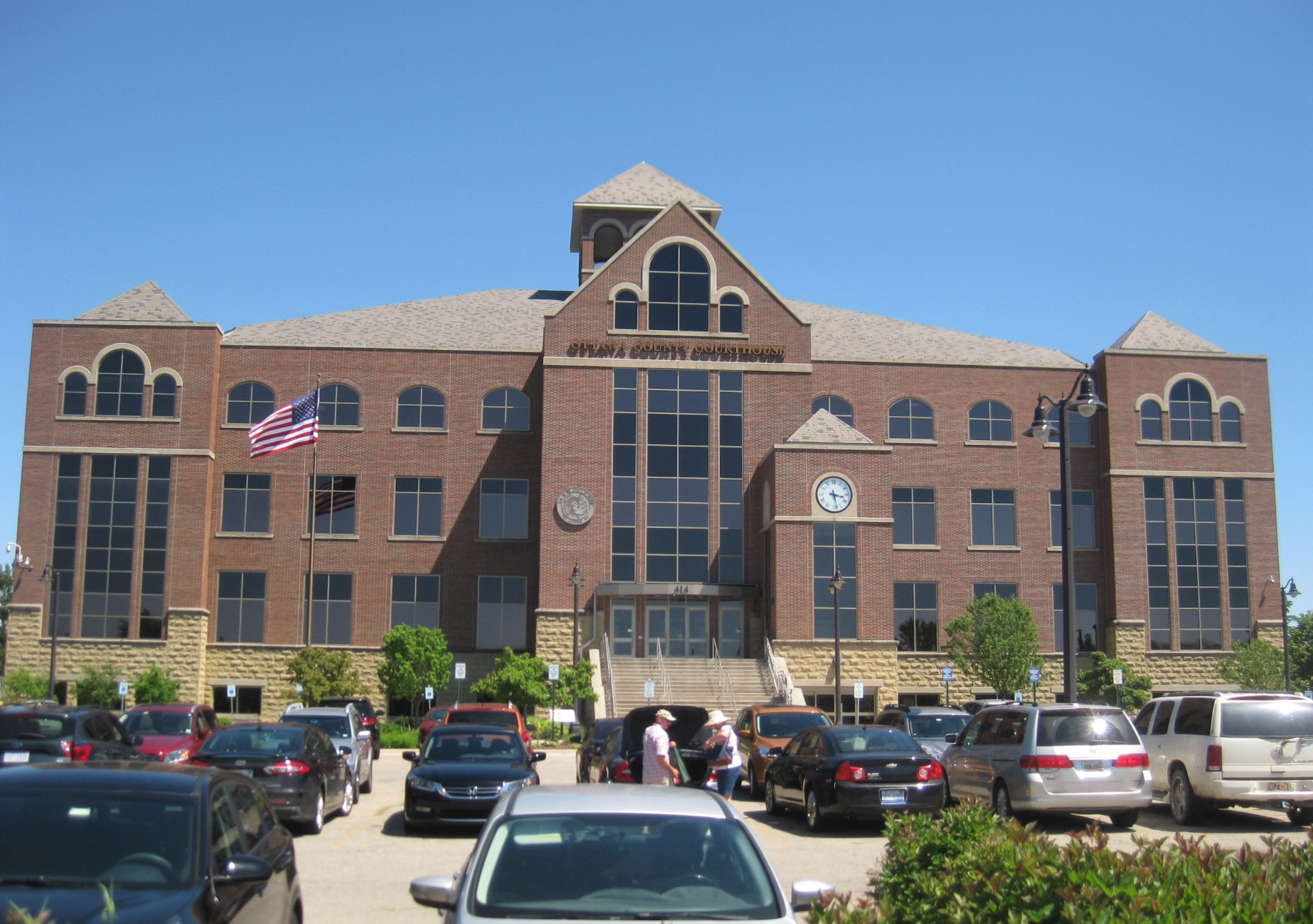 Ottawa County Courthouse